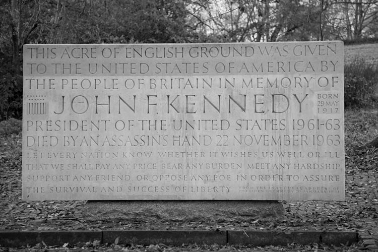 The 1965 JFK Memorial at Runnymede designed and carved by Alan Collins & placed on land given the USA (note existing USA link through Urban L. Broughton)at Runnymede UK. Part of JFK's inaugural speech is shown. Author: Antony McCallum